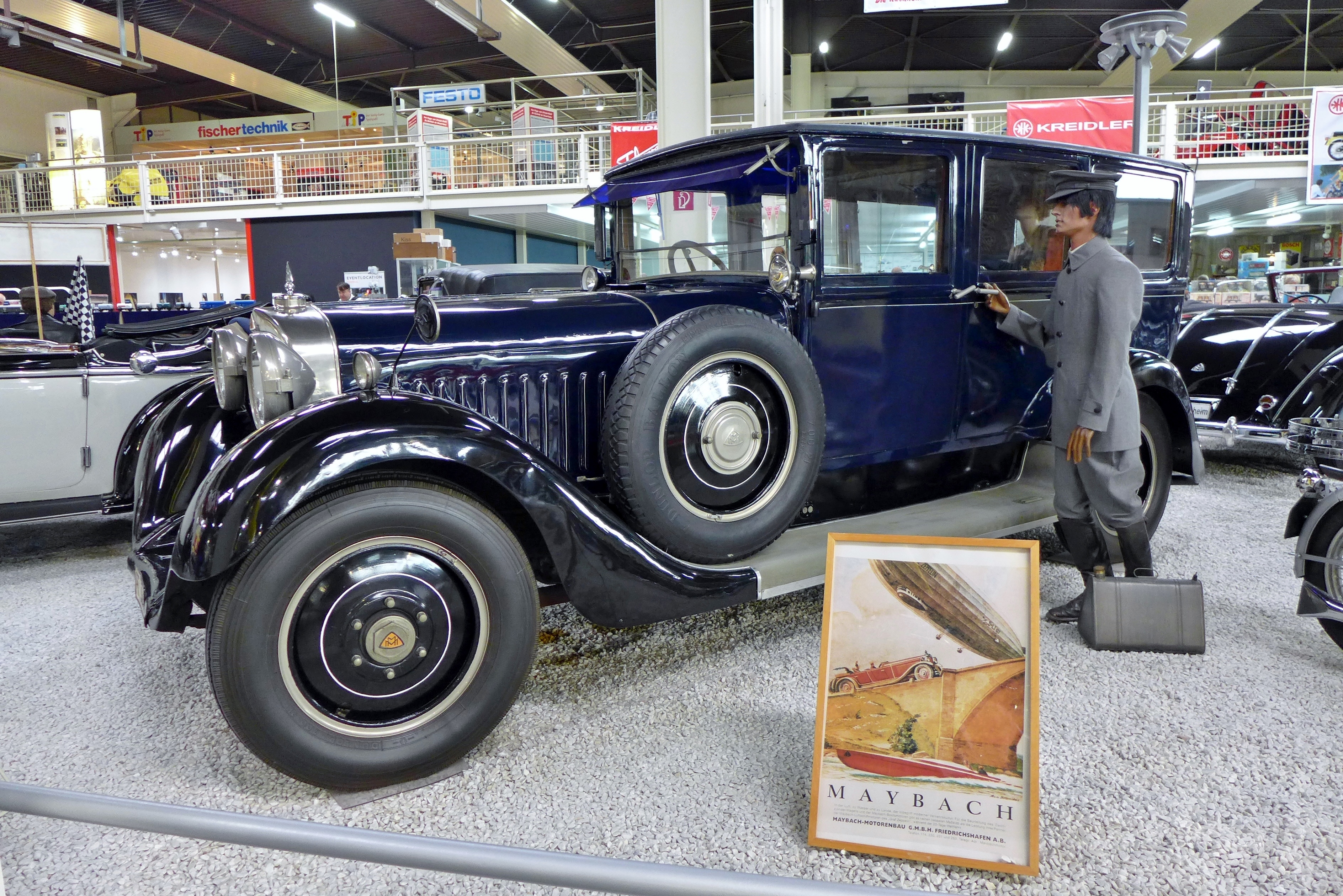 1926 Maybach W 5